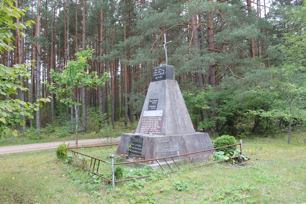 Monument in memory of partisans, Noruliai, Varėna district, LithuaniaLietuvių: Norulių paminklas partizanams atminti, Varėnos rajono savivaldybė, Lietuva